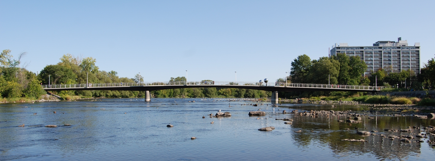 View of the Adàwe Crossing, Ottawa, looking south (upstream) taken in September 2016